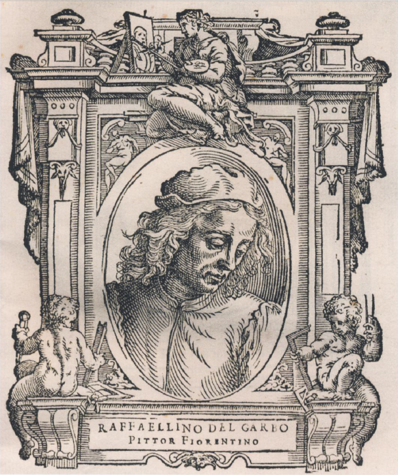 Cristoforo Coriolano (after a drawing from the collection of Bastiano di Niccolò da Montecarlo), Portrait of Raffaellino del Garbo, from the 1568 edition of Vasari's Vite.